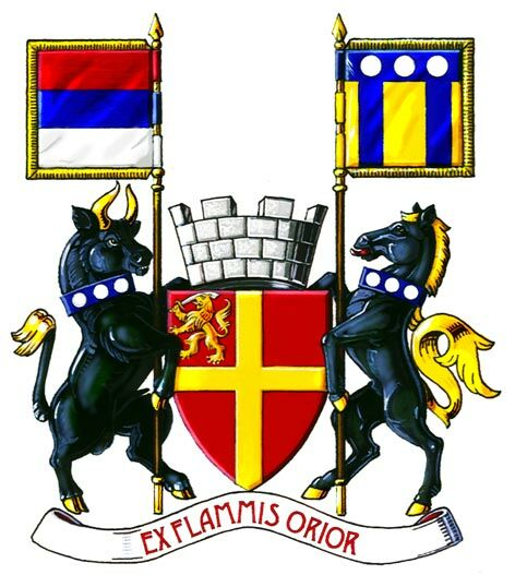 Old Coat of arms of Požarevac (2001-2005), Serbia/Blason de la ville de Požarevac, Serbie